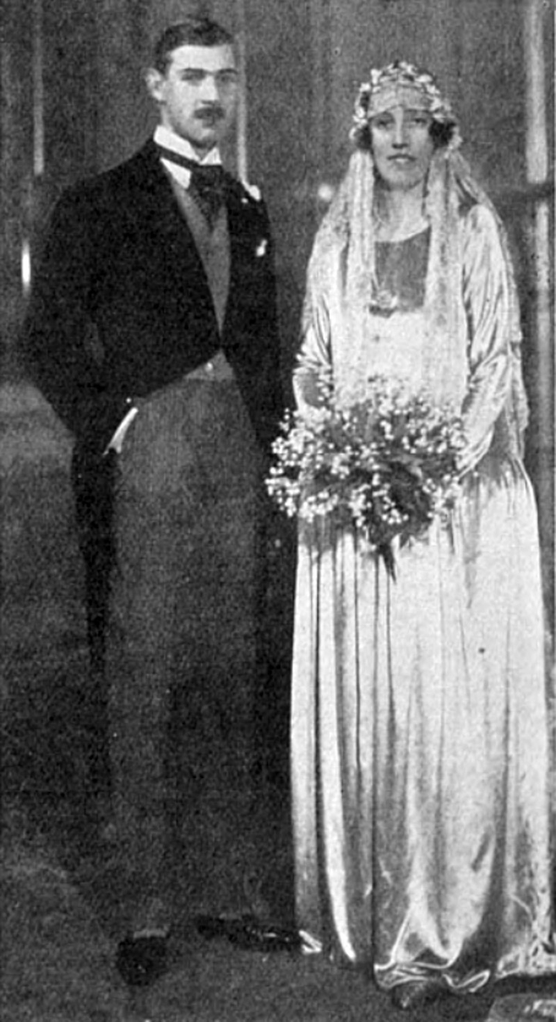 Fitzherbert Wright and Doreen Wingfield wedding